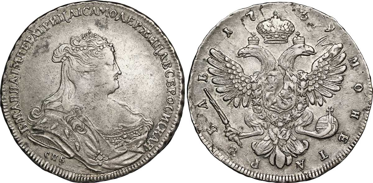 1 rouble à l'effigie d'Anne, 1739